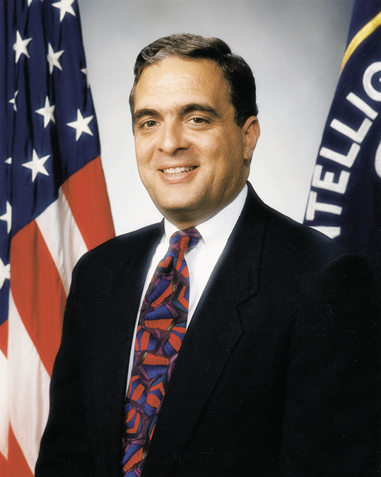 George Tenet, former director of United States Central Intelligence.